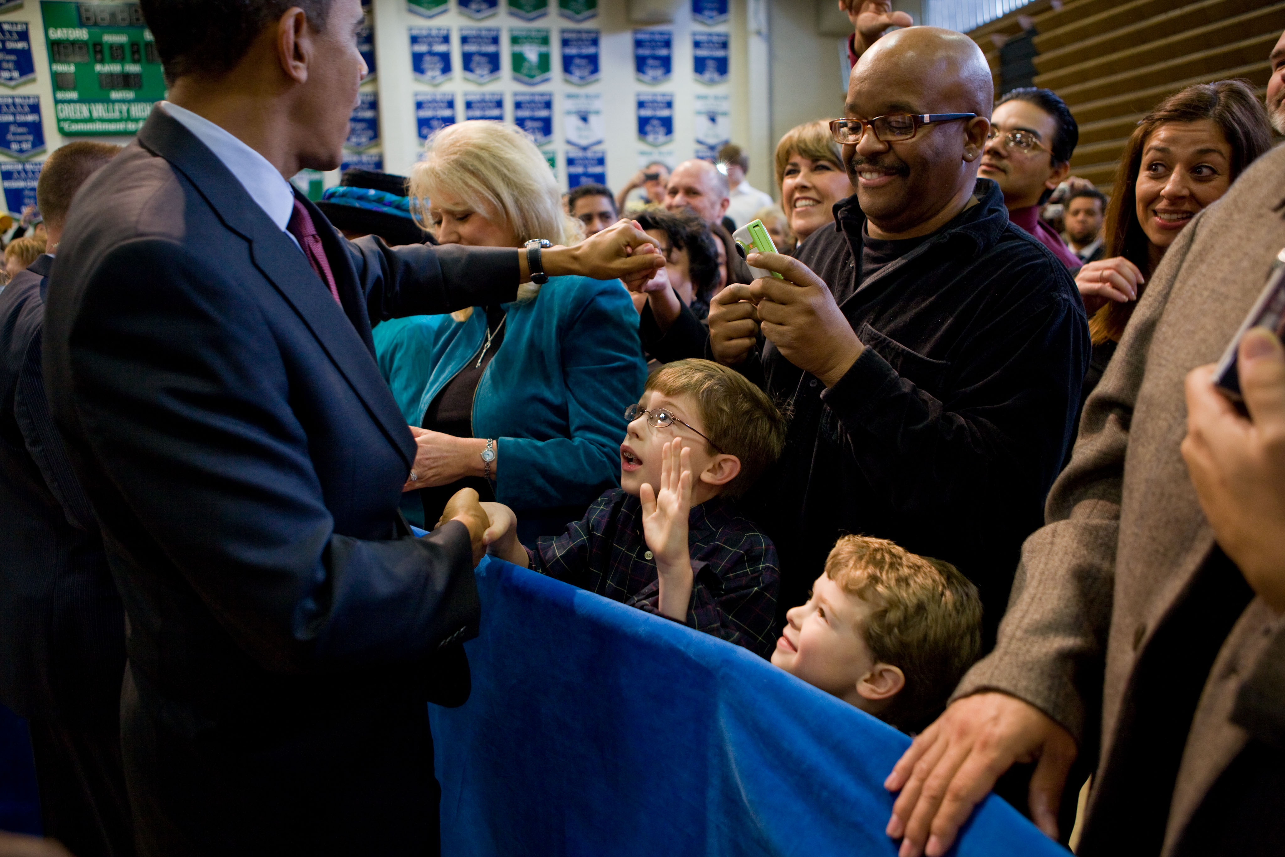 P021910PS-0366 by The White House. President Barack Obama greets supporters of all ages after a town hall meeting at Green Valley High School in Henderson, Nev., Feb. 19, 2010. (Official White House Photo by Pete Souza) This official White House photograph is in the public domain from a copyright perspective, so while restrictions such as personality or privacy rights may apply, in general, manipulations are allowed.